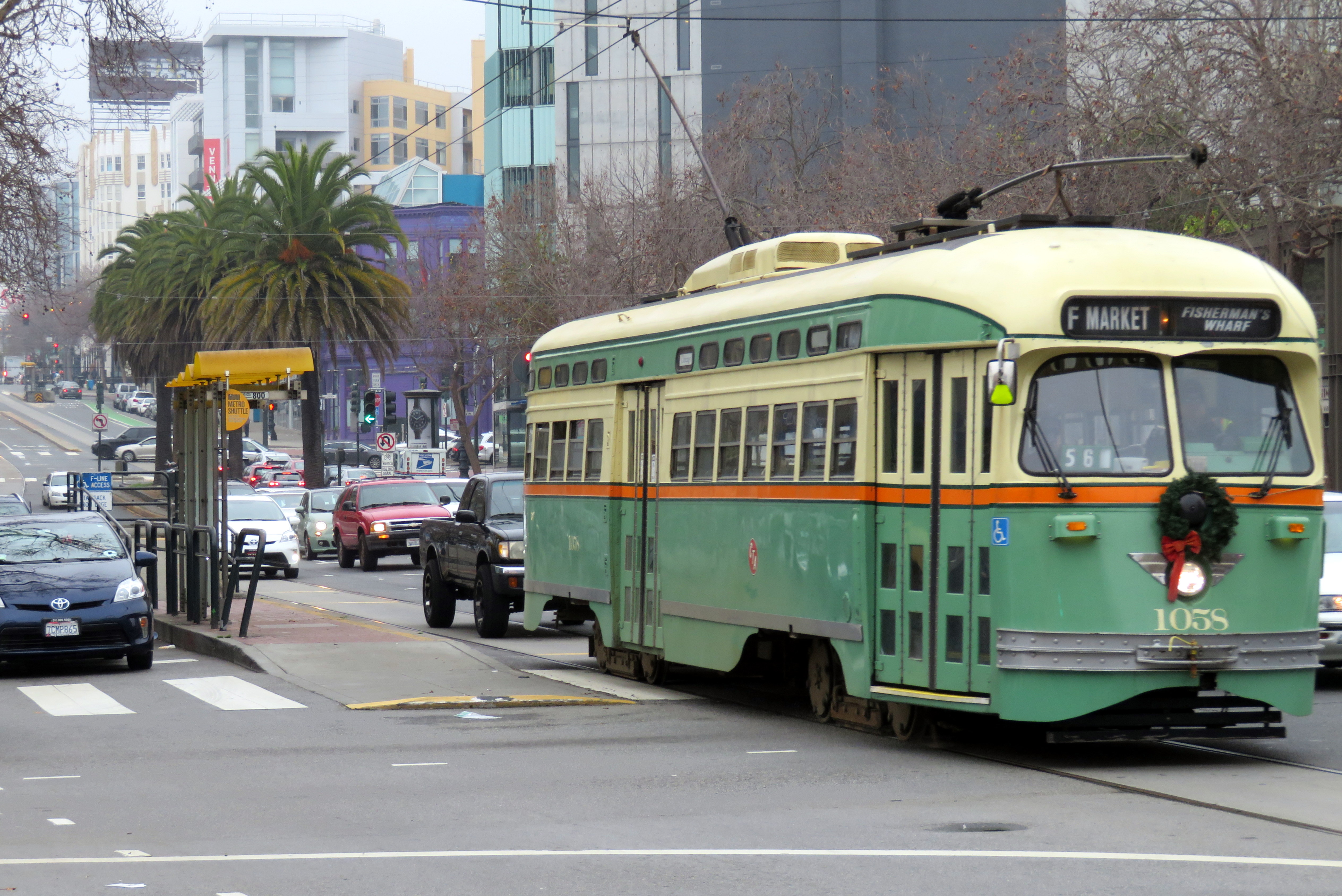 Muni 1058 at Market and Gough in January 2018